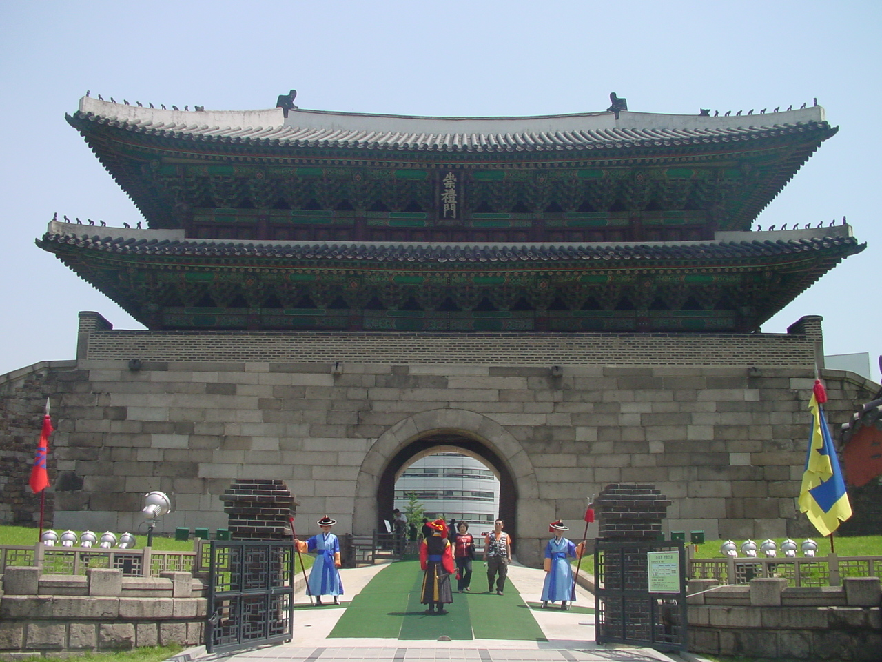 Namdaemun (Sungnyemun) located in Seoul, Korea